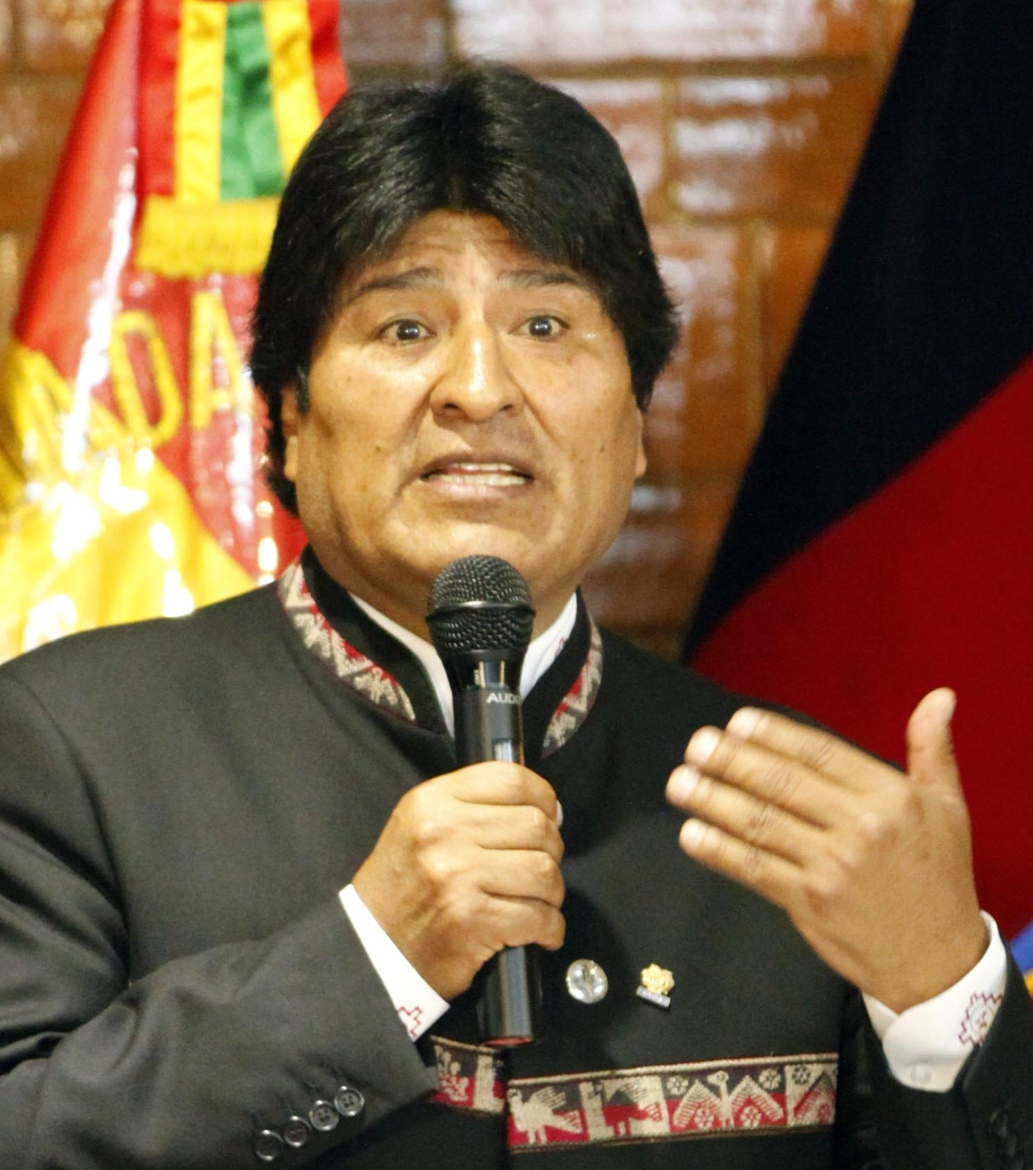 Quito (Ecuador), 23 de Julio 2013. Ceremonia de entrega de las "Llaves de la ciudad" al señor Presidente del Estado plurinacional de Bolivia; Evo Morales y declaratoria de Huésped Ilustre, por parte del Señor Alcalde de la ciudad, Augusto Barrera.